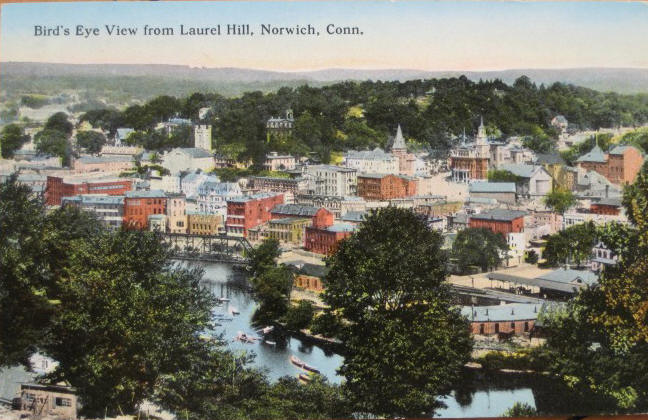 Postcard: Bird's-eye view from Laurel Hill of Norwich, Connecticut Description: Store Web page states: "Divided back, postally-used in 1916"